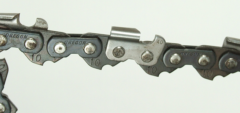 A section of oregon #10 saw chain, a "chipper" design